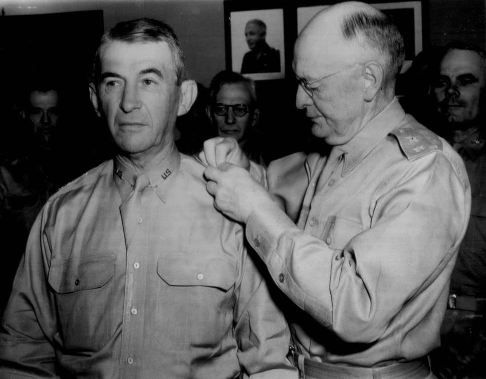 May 17 1941, San Antonio, TX, LTG H.J. Brees pinned the third star of rank to successor to in command of 3rd Army, LTG Walter Krueger at a military academy.